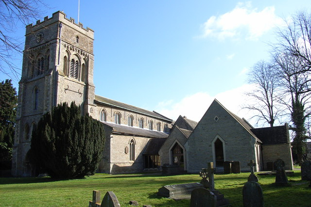 Church of England parish church of St Peter, Brackley, Northamptonshire. The parish is that of St Peter and St James, the latter being the dedication of a chapel that has since disappeared. Note that the triangular tops of the extension's windows do not match the curved ones of the original building.